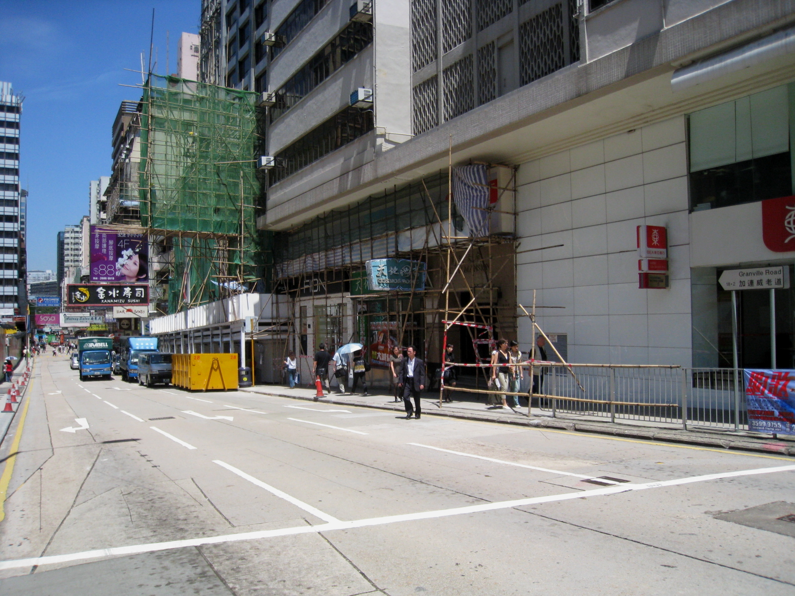 HK Granville Road Near To Nathan Road Section 加連威老道近zh:彌敦道